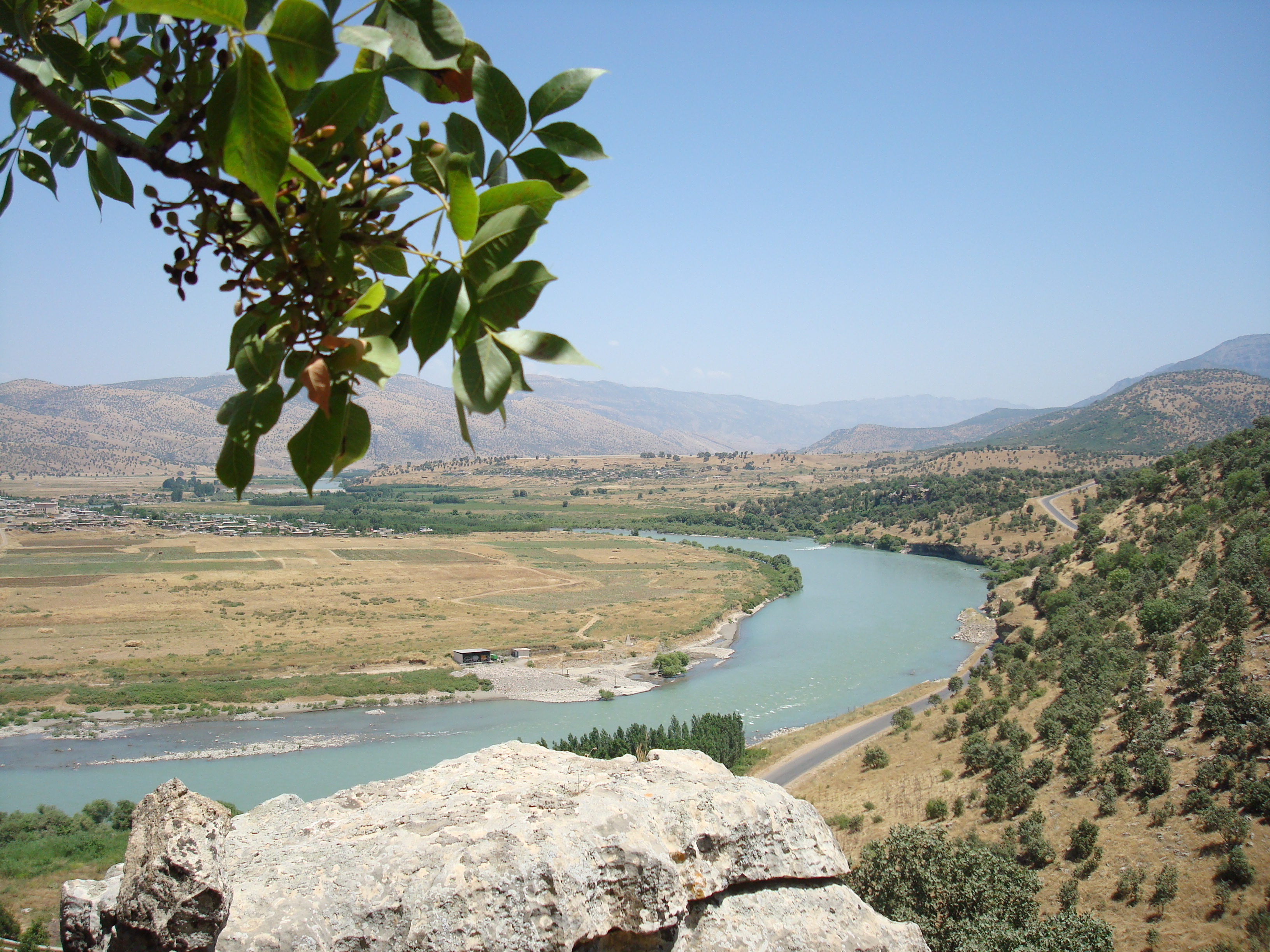 The Ze as it winds its way through the Zebar valley